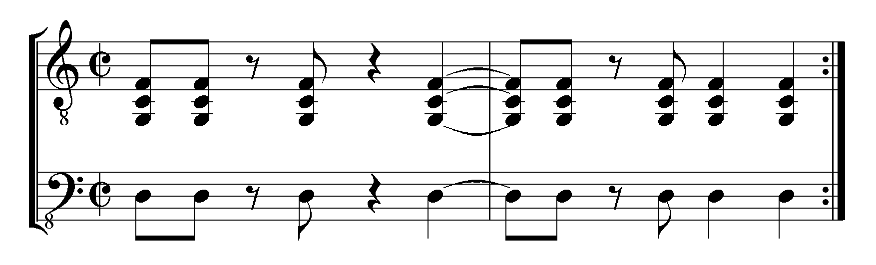 Instrumental break from Milton Nascimento's composition »Vera Cruz«, file by the author.